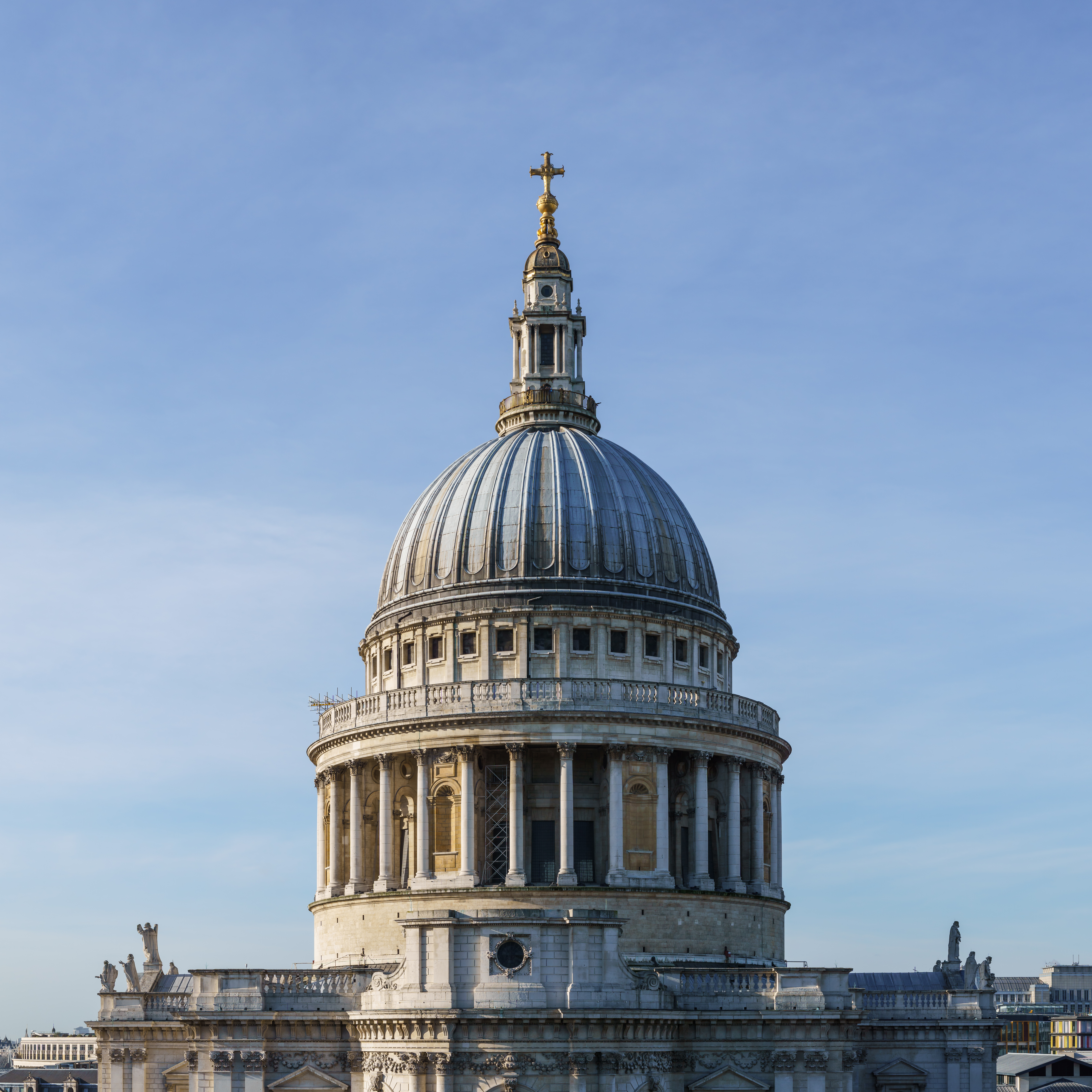 The dome of St Paul's Cathedral. Looking west on the roof terrace of One New Change in the City of London. Photographer's notes: Each of the 23 frames were taken with a Sony A77II camera and Sony 50 f/1.8 lens. The exposure was f/8, 1/250s, ISO 100. The camera was supported by a Giottos YTL 9383 tripod, Sunwayfoto DB-36 ball head and Nodal Ninja 3II panoramic head.